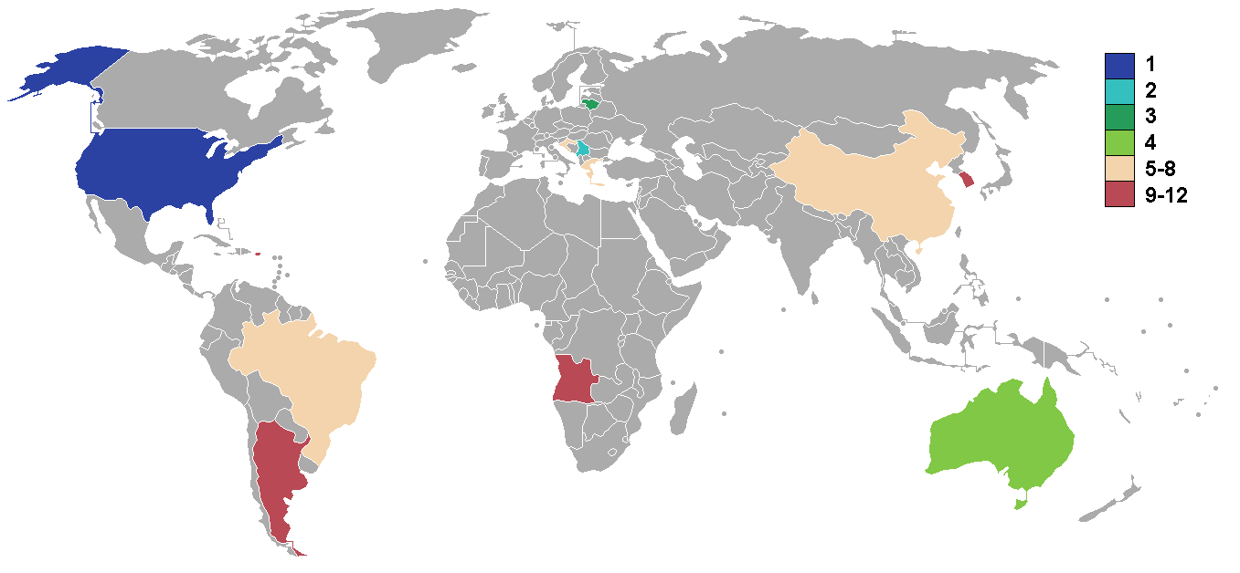 Final finishing places on Basketball at the 1996 Summer Olympics - Men's basketball.